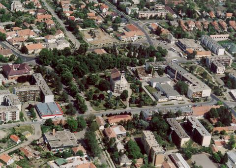 Heves, Hungary, aerialphotography